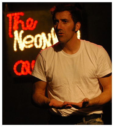 Slash Coleman performing at Mill Mountain Theatre